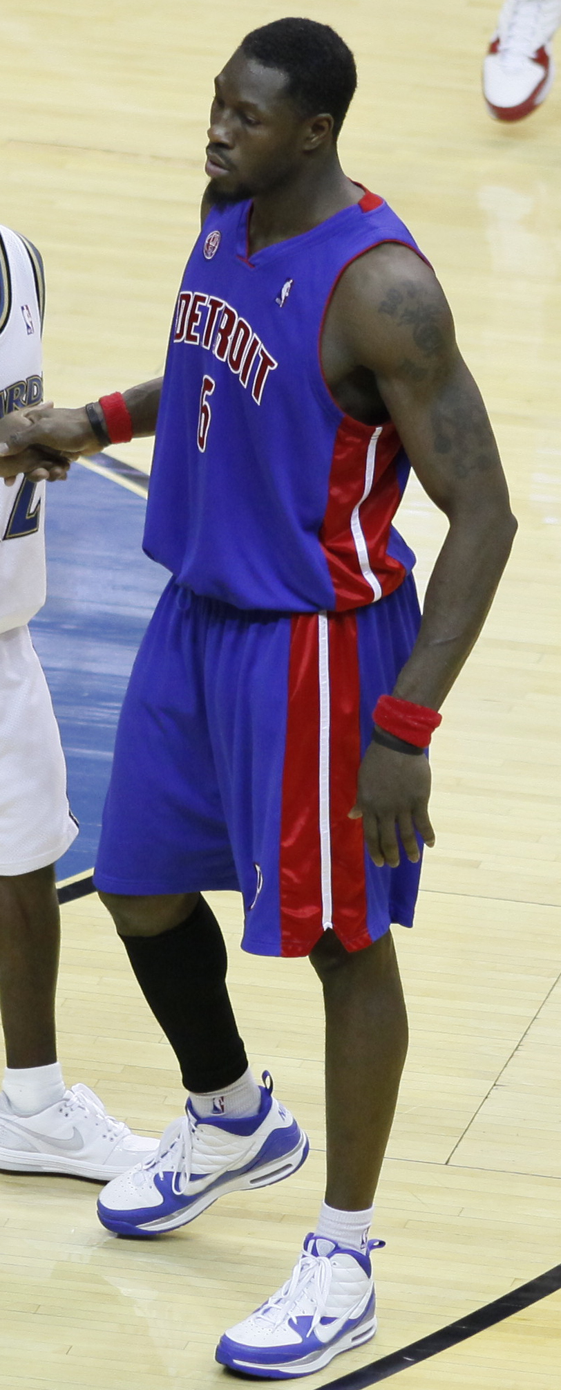 Ben Wallace playing with the Detroit Pistons